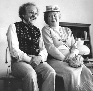 The Jewish Gauchos (1974 film).